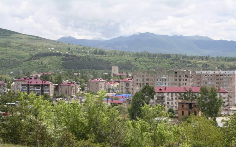 Tskhinvali, South Ossetia Ирон: Цхинвал, Хуссар Ирыстон